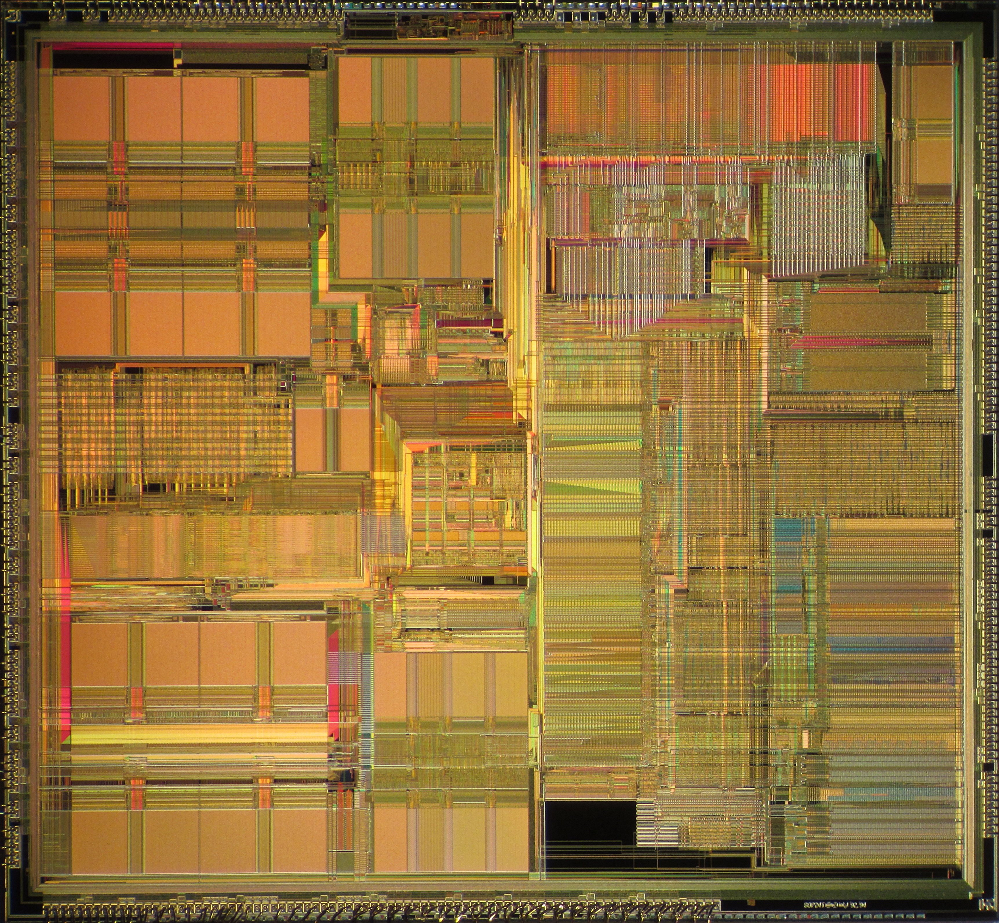 Die shot of Intel Pentium OverDrive with P24T core (PODP5V83).